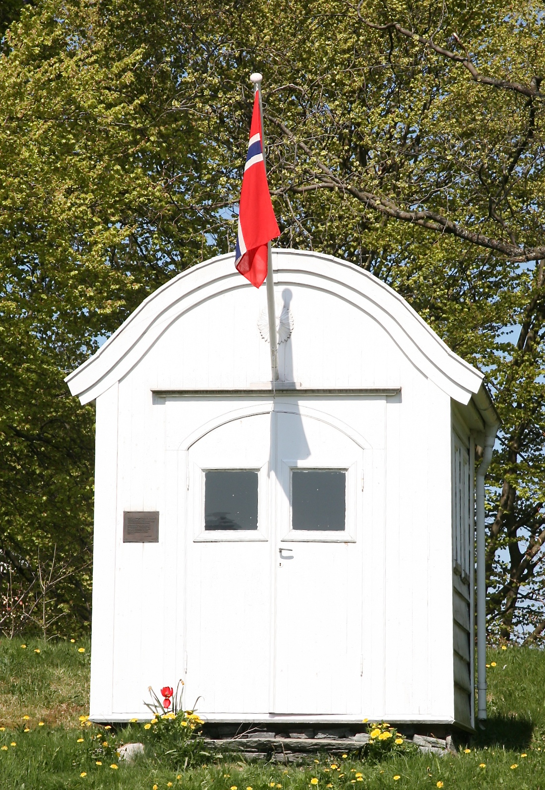 Nordnæs Bataillon